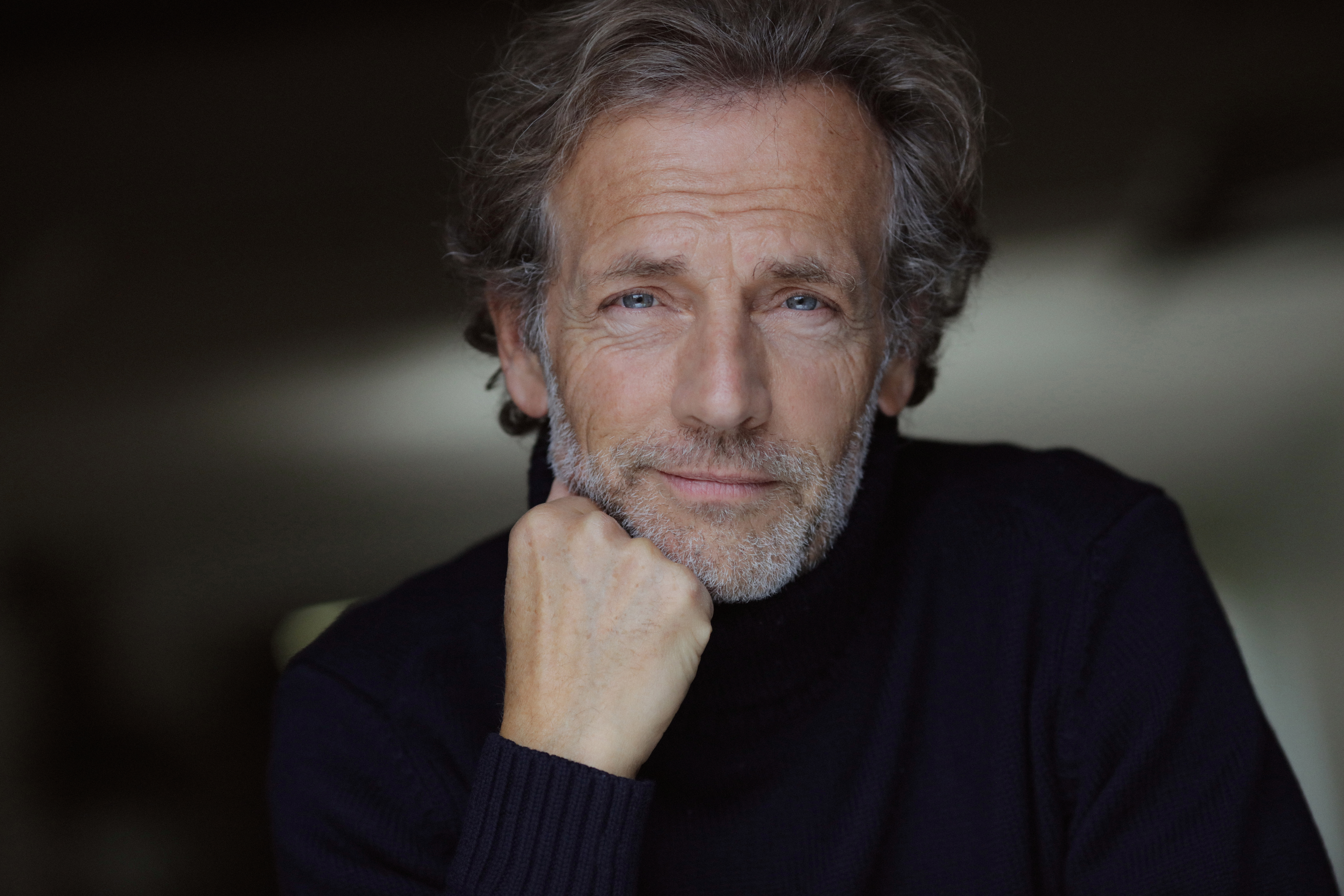 Stephane Freiss